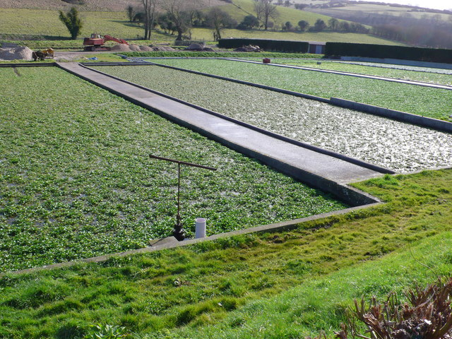 Water Cress Beds A general view of the Lower Magiston water cress beds near Sydling St Nicholas. Water flows down the valley through the cress which is grown on beds of gravel.